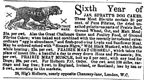 1867 ad for Spratt's Dog Biscuit, probably the first commercial/industrial dog biscuit